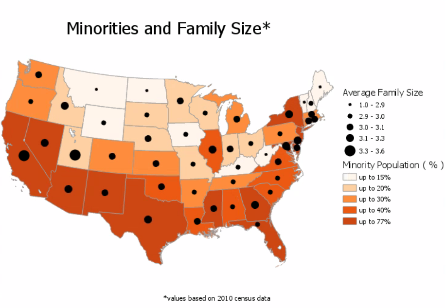 Example of a bivariate thematic map, displaying minority concentration and family size